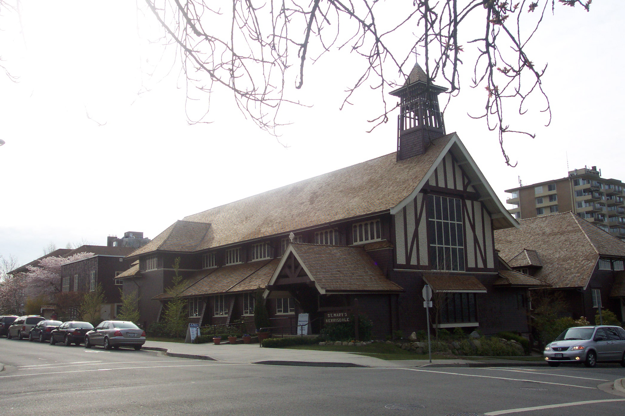 Usgnus, Own work, St. Mary's Anglican Church in Kerrisdale, Vancouver, British Columbia